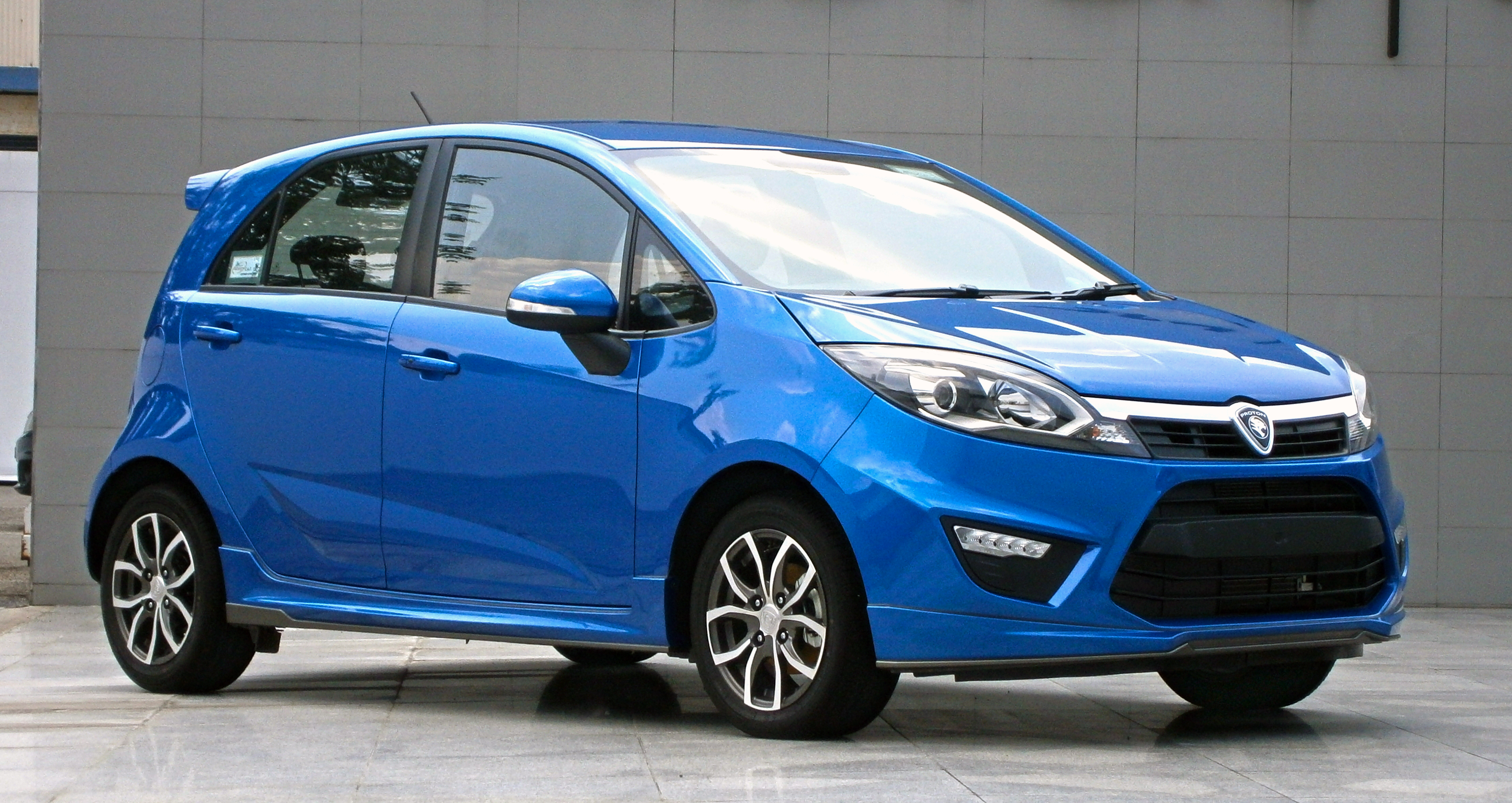 2014 Proton Iriz 1.6L Premium in Shah Alam, Malaysia. Colour : Atlantic Blue